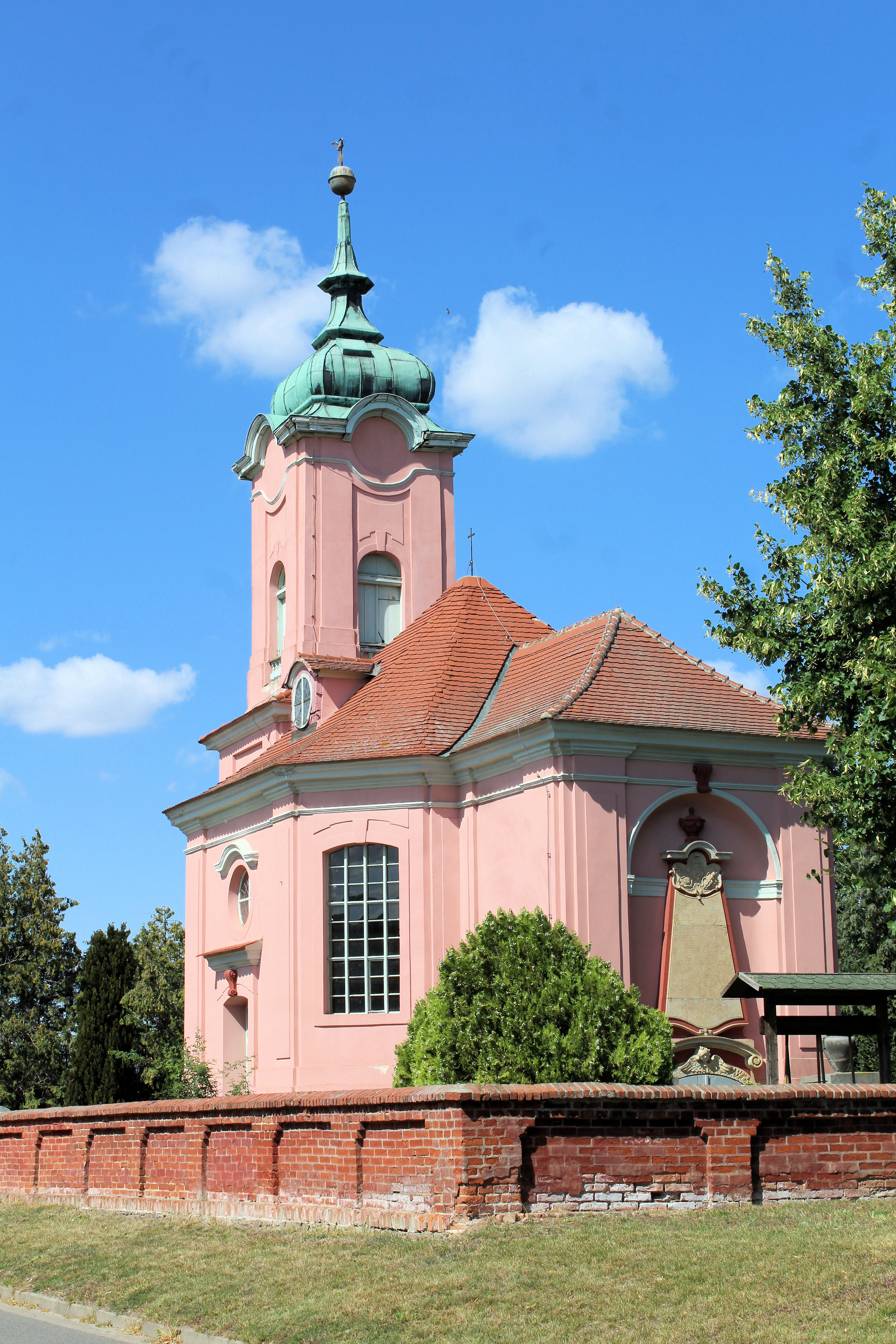 Orpensdorf (Osterburg), the village church